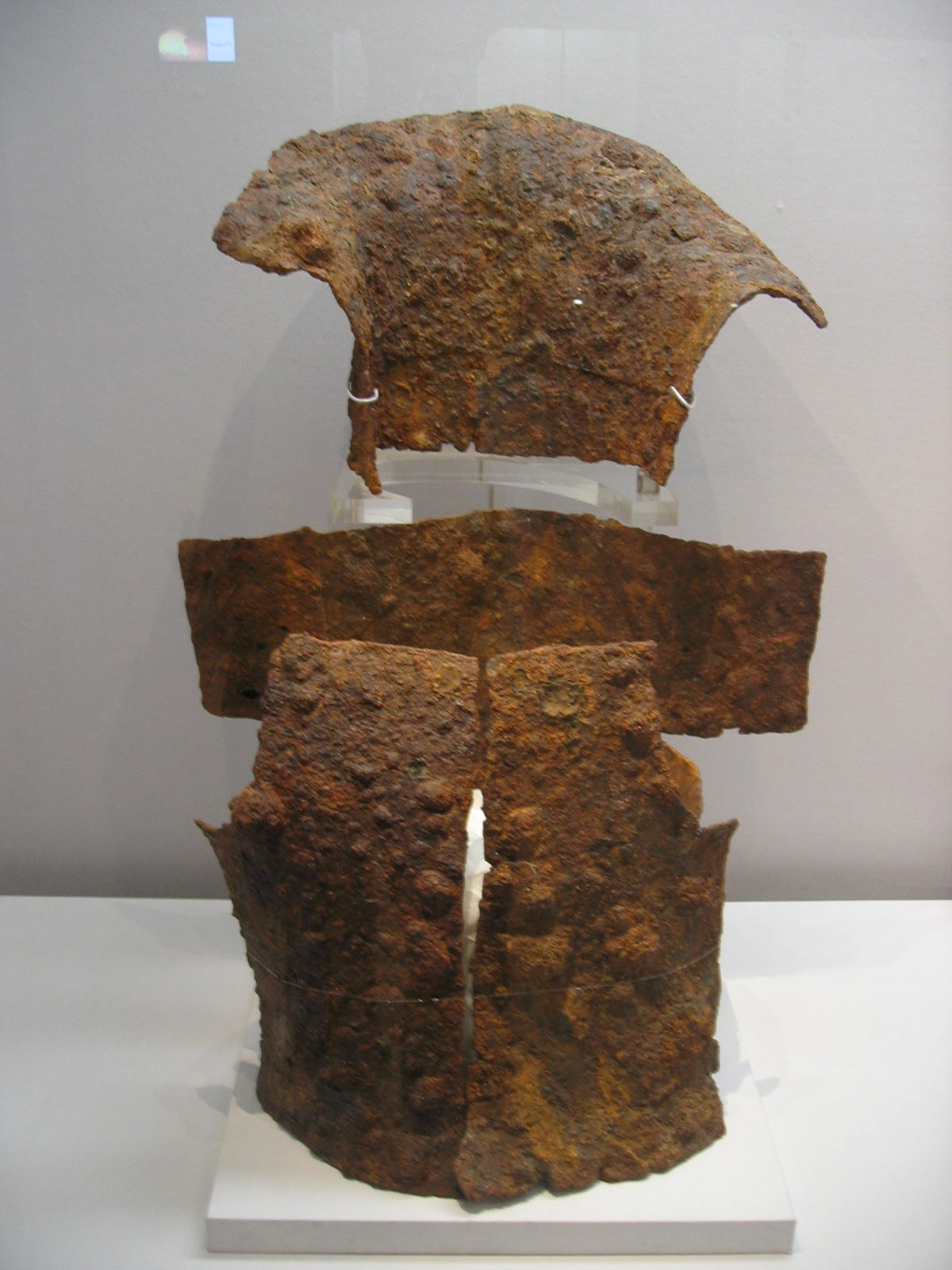 Silla iron armor, Three Kingdoms of Korea, 3rd century